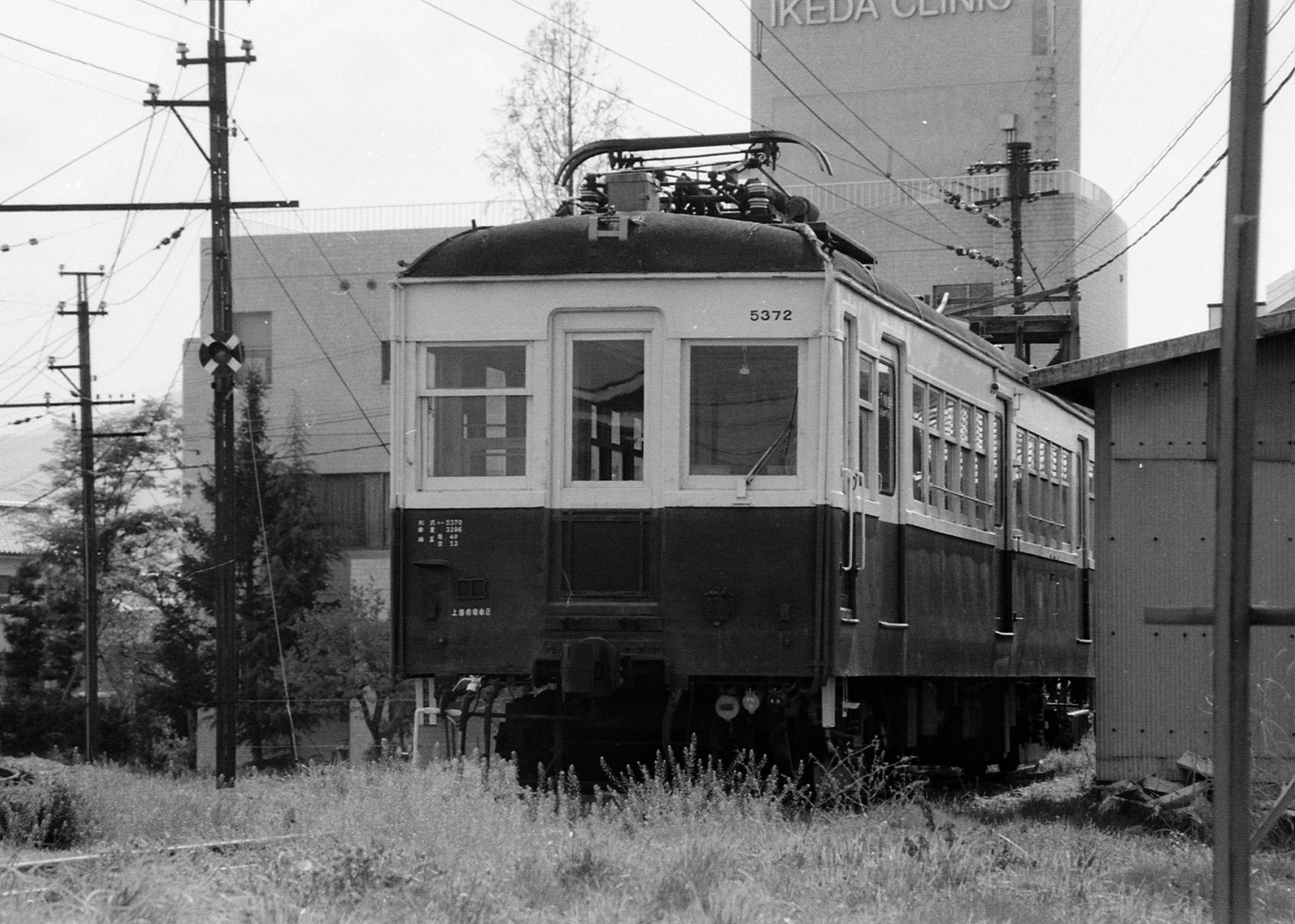 Ueda Kotsu 5372